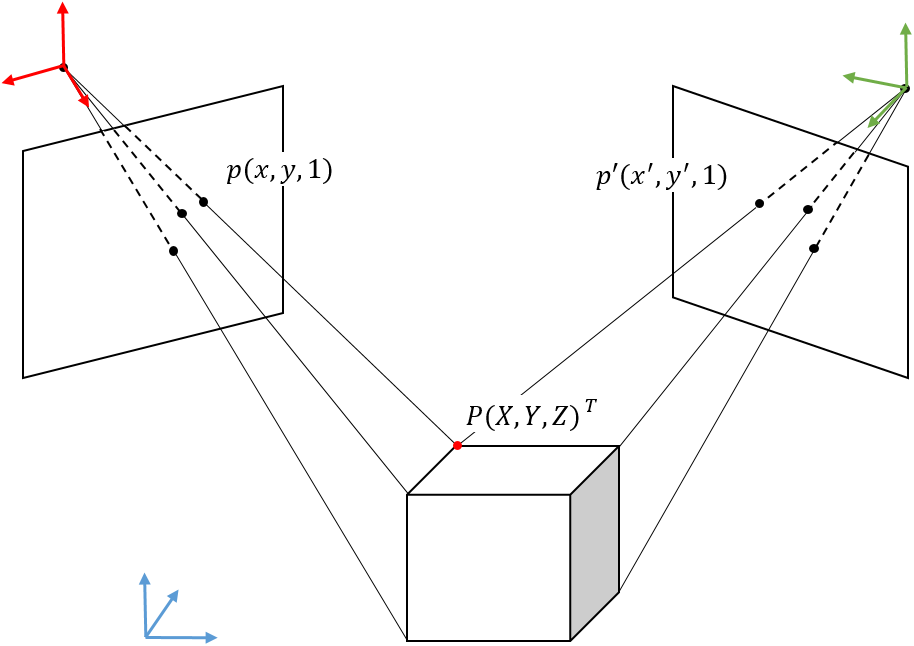 figure 1 for deduction of the fundamental matrix